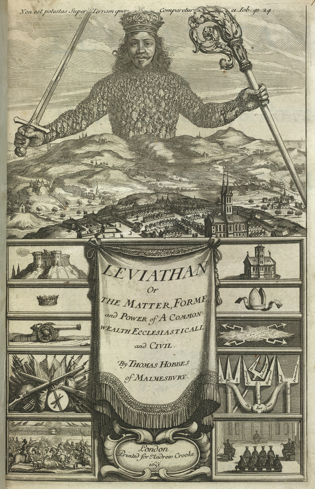 Leviathan Leviathan.